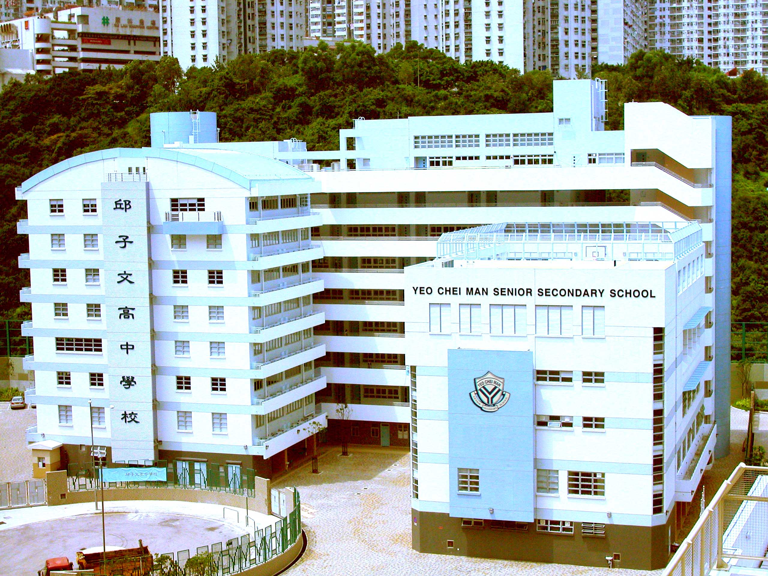 The outlook of YCMSSS campus.